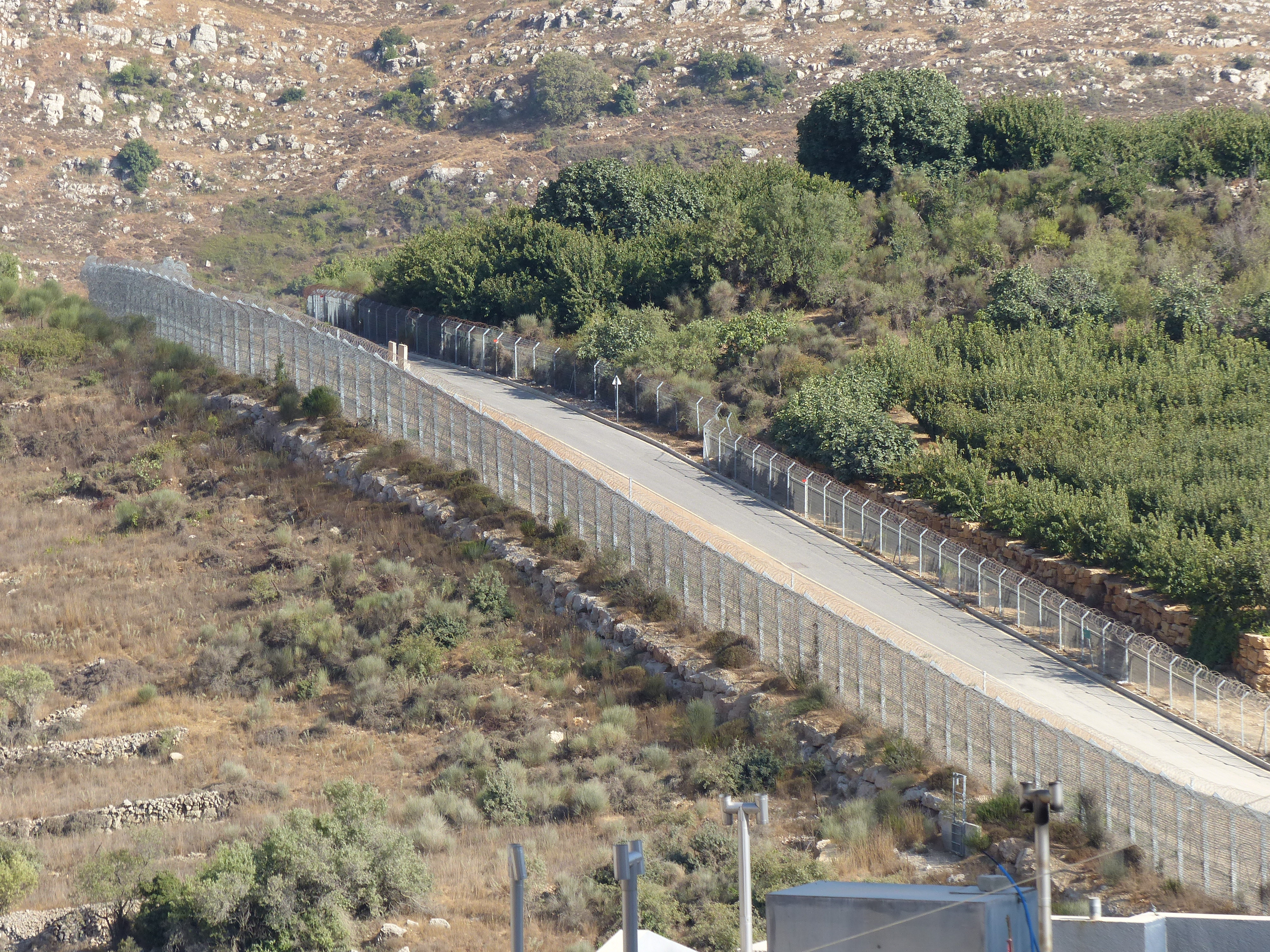 Israel border in Majdal Shams, Golan Heights